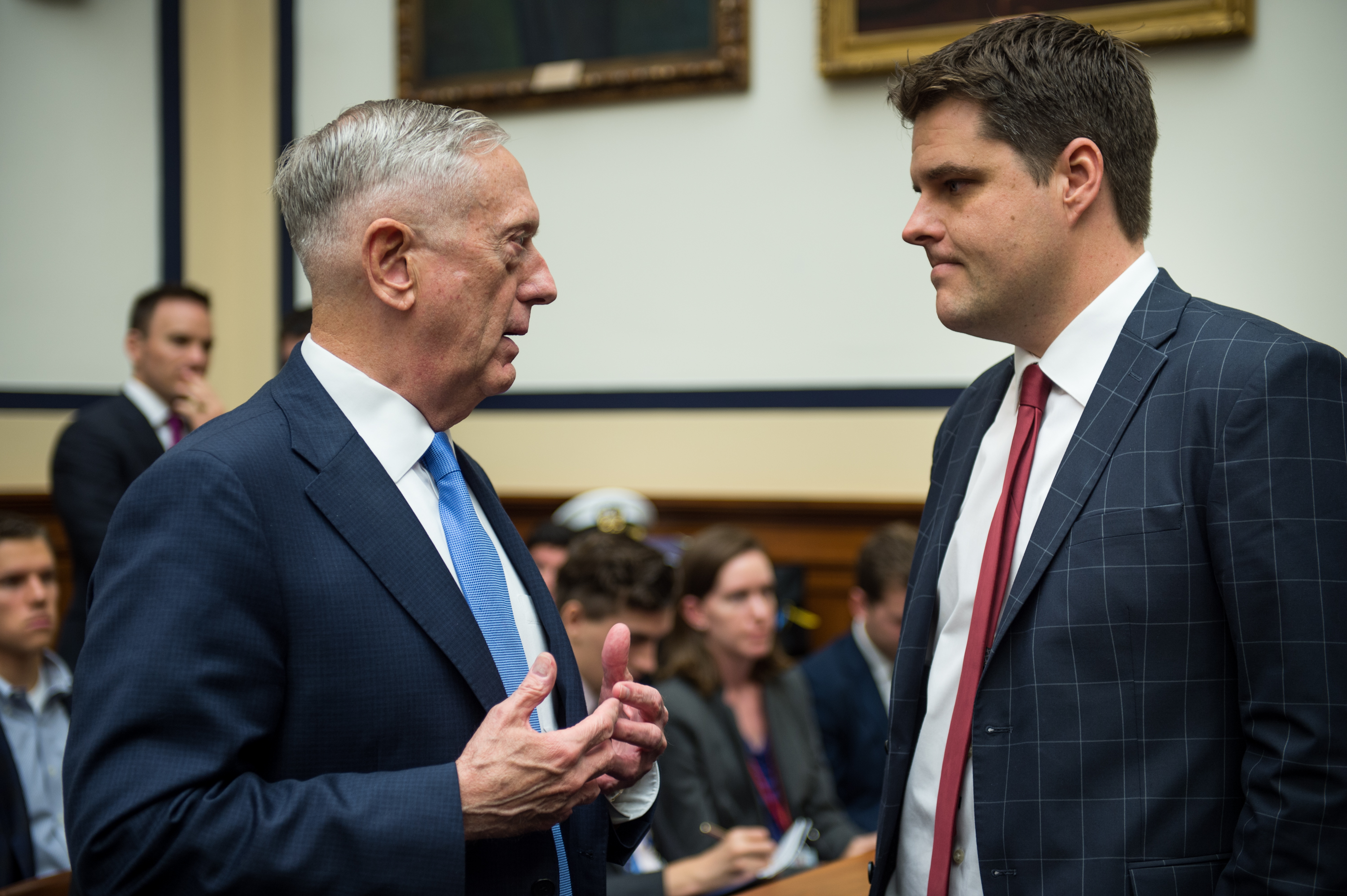 Secretary of Defense Jim Mattis speaks with U.S. Rep. Matt Gaetz about the recent hurricanes in Florida during a brief intermission of a House Armed Services Committee hearing on Capitol Hill, Oct. 3, 2017. Mattis testified alongside U.S. Marine Corps Gen. Joseph F. Dunford, Jr., chairman of the Joint Chiefs of Staff, about the U.S. Defense strategy in South Asia. (DoD Photo by U.S. Army Sgt. James K. McCann)